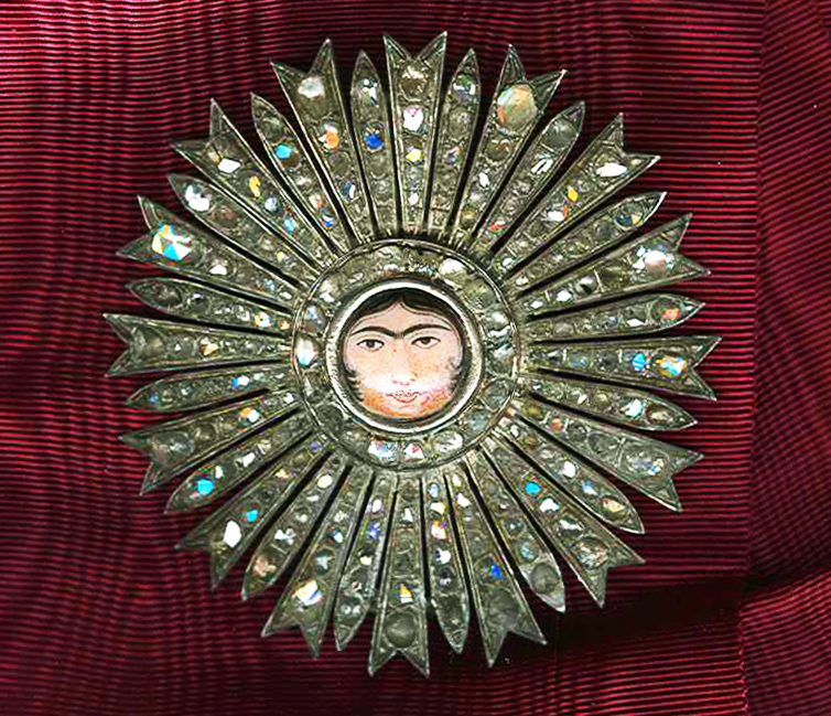 Order of Aftab - Qajar period